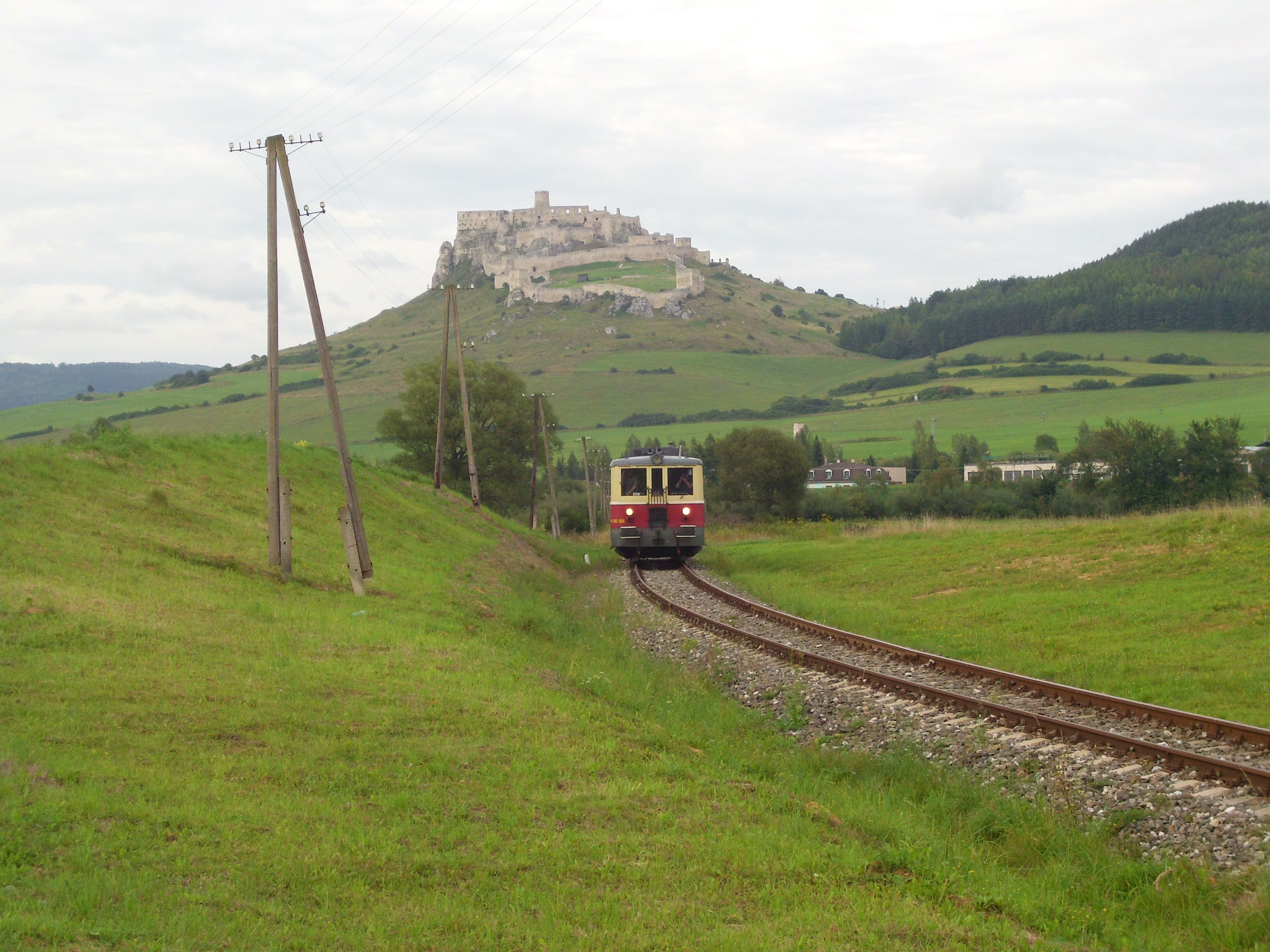 Diesel railcar 830 (marked as M262, belonging to KŽC Doprava) coming from Spišské Podhradie along a route to Spišské Vlachy. Spiš Castle dominates in the background.